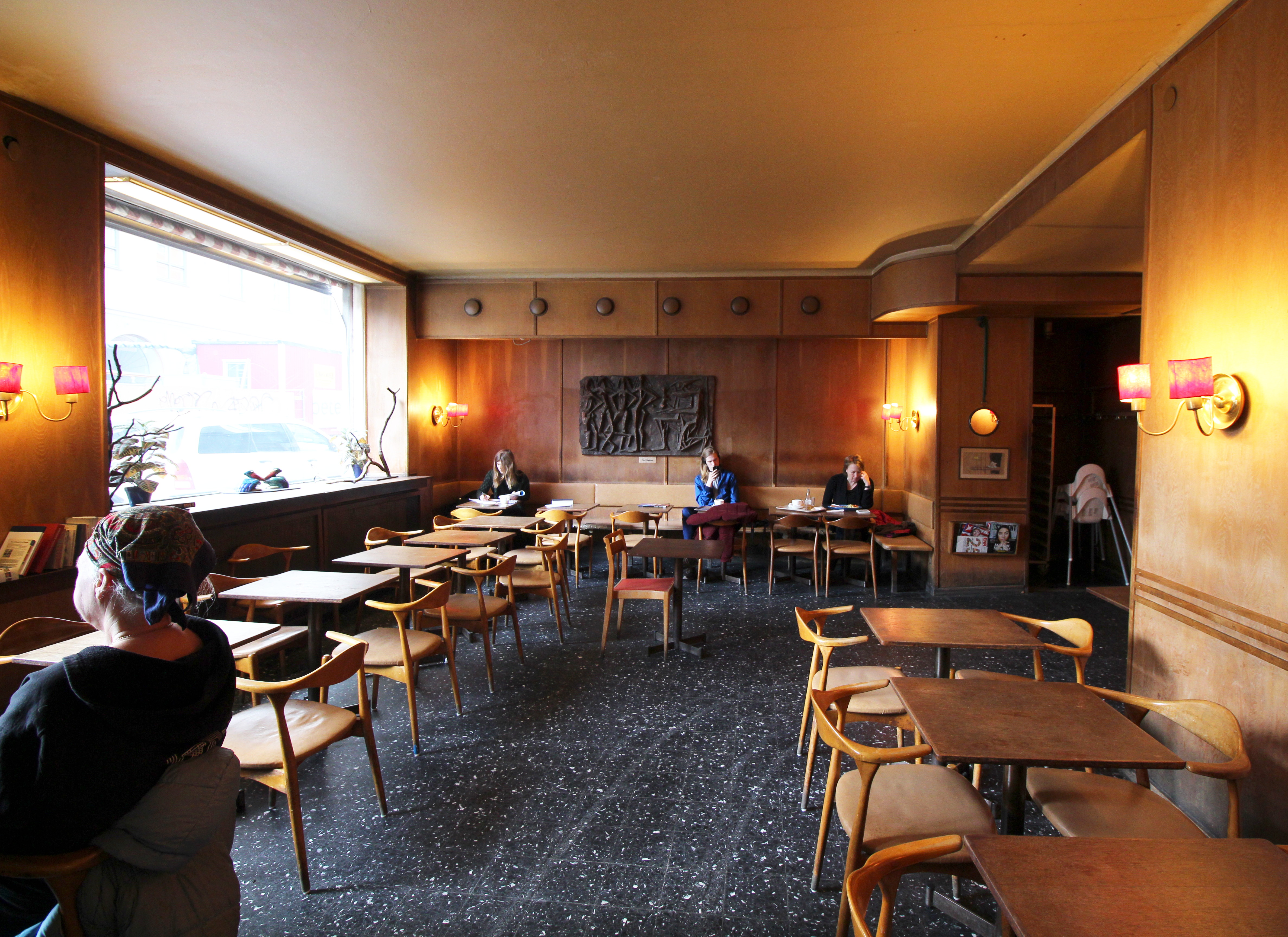 Café Valand, Surbrunnsgatan 48, Stockholm, Sweden